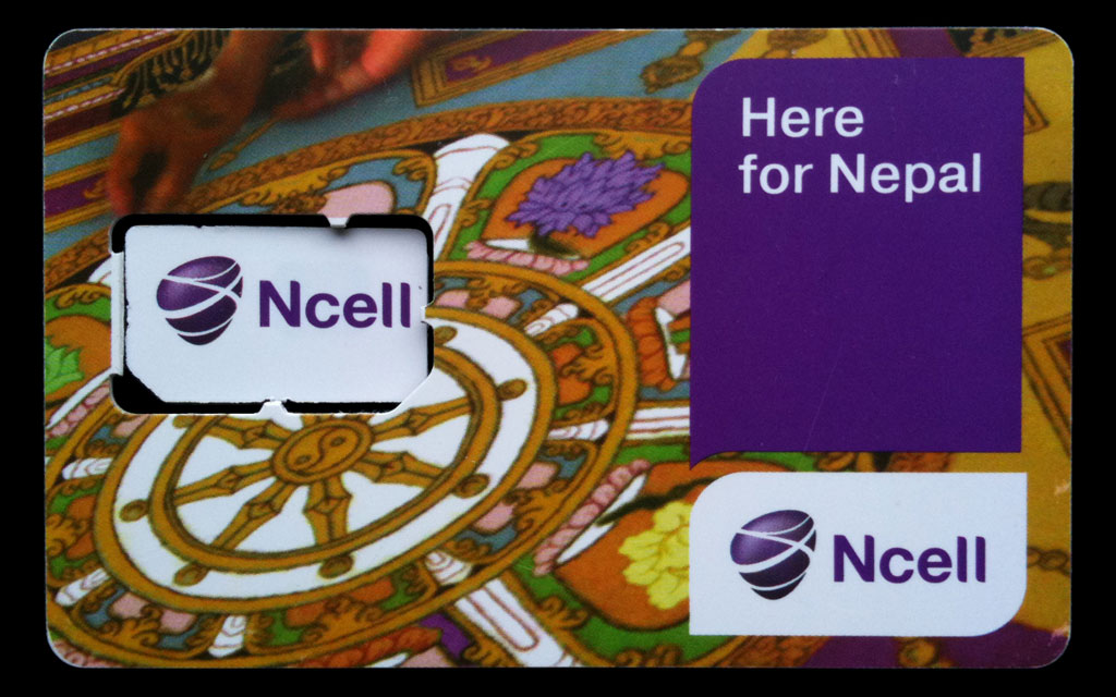 SIM card from Ncell